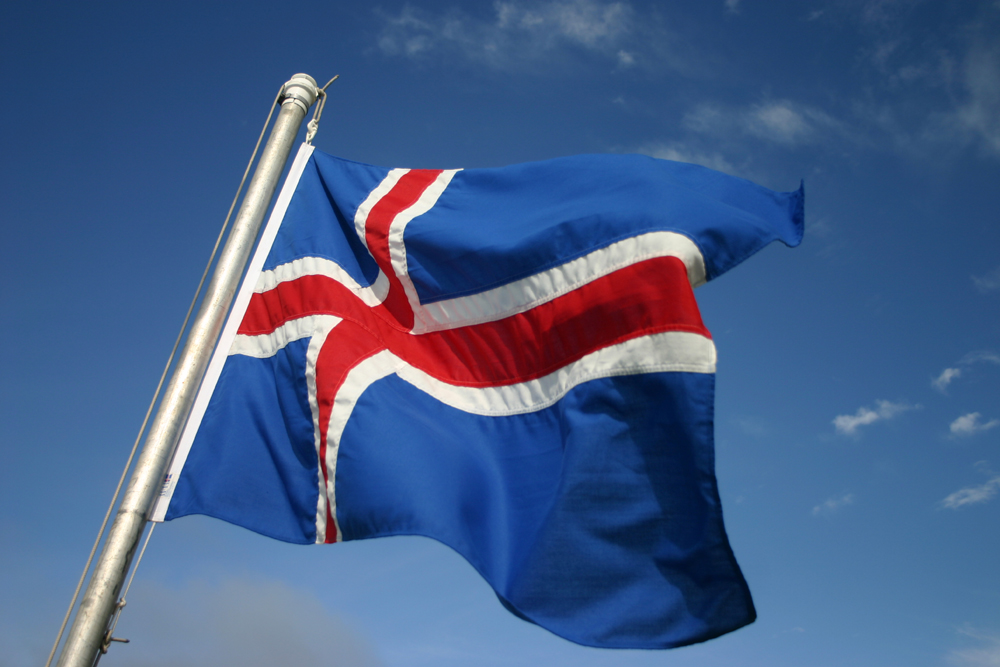 Iceleand Flag